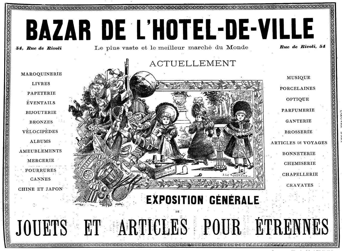 Publicité pour le Bazar de l'Hôtel de Ville parue dans la revue L'Œuvre d'art du 20 janvier 1895.